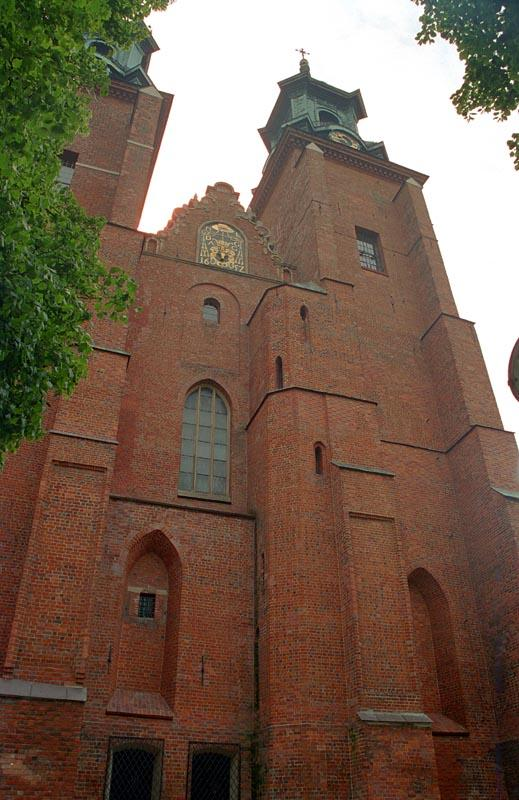 Gniezno Cathedral in Poland